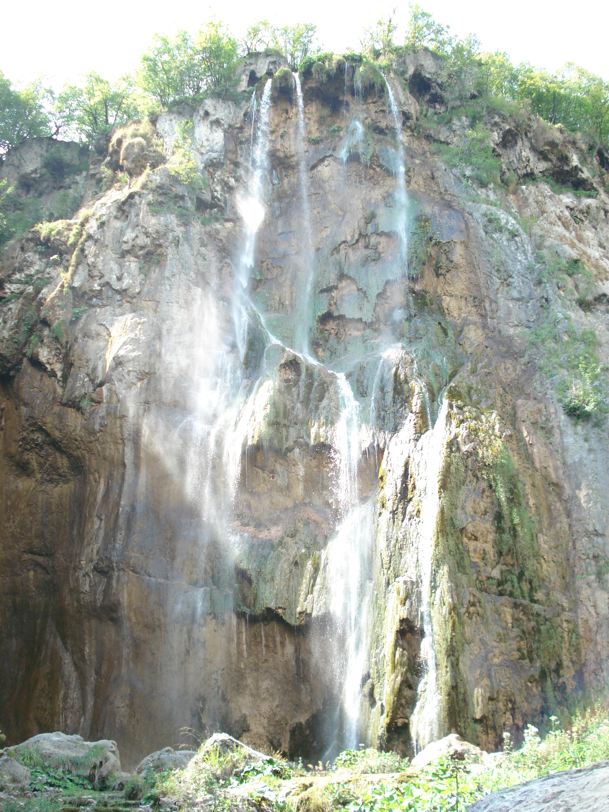 Plitvice waterfalls, The Big waterfall